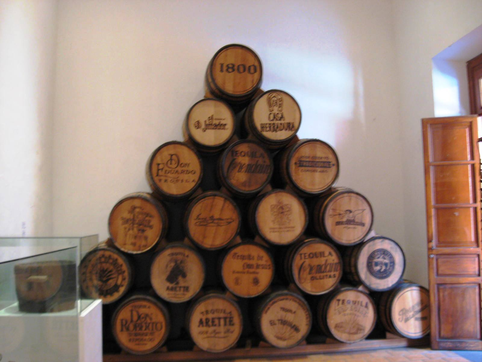 Barrels for tequila on display at the National Museum of Tequila in Tequila Jalisco Mexico